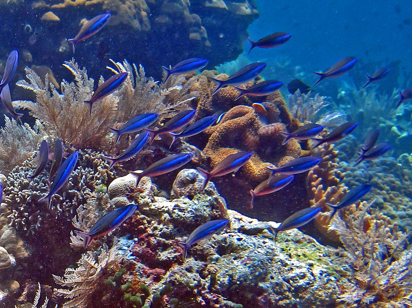 Pterocaesio tile at Bunaken, Sulawesi